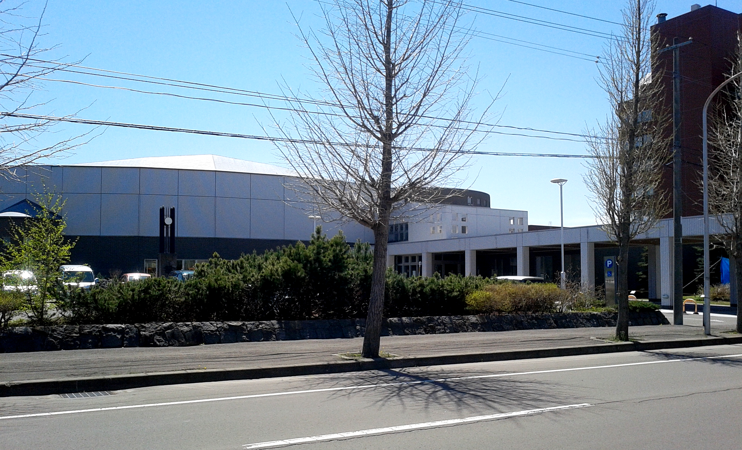 The Eniwa Municipal Library in Megumino, Eniwa, Hokkaido.